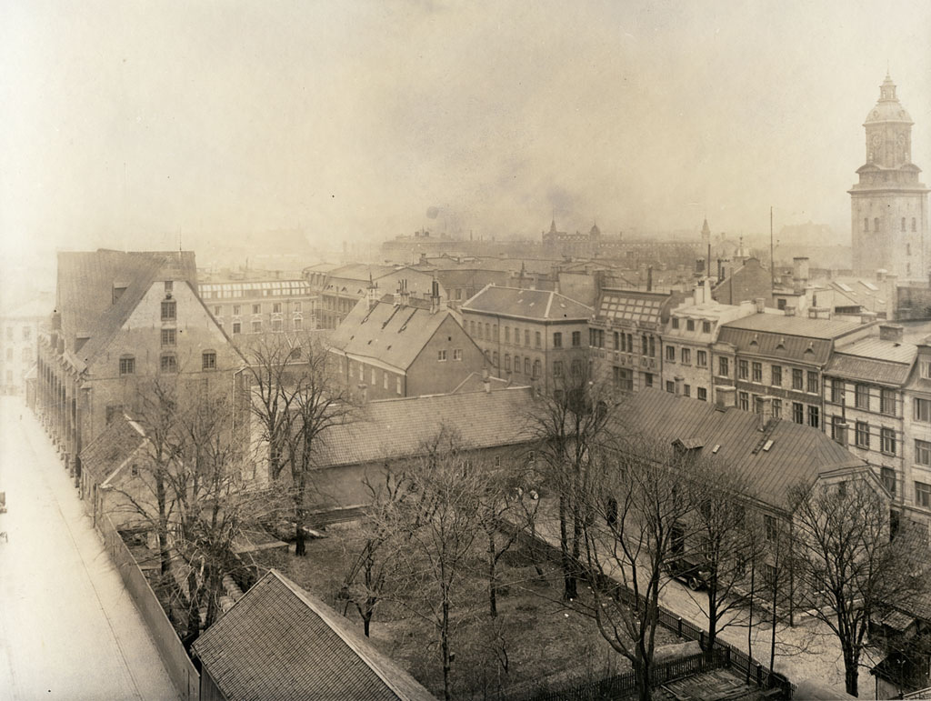 Kronhuset area in Gothenburg. Tower of Christine Church to the right.